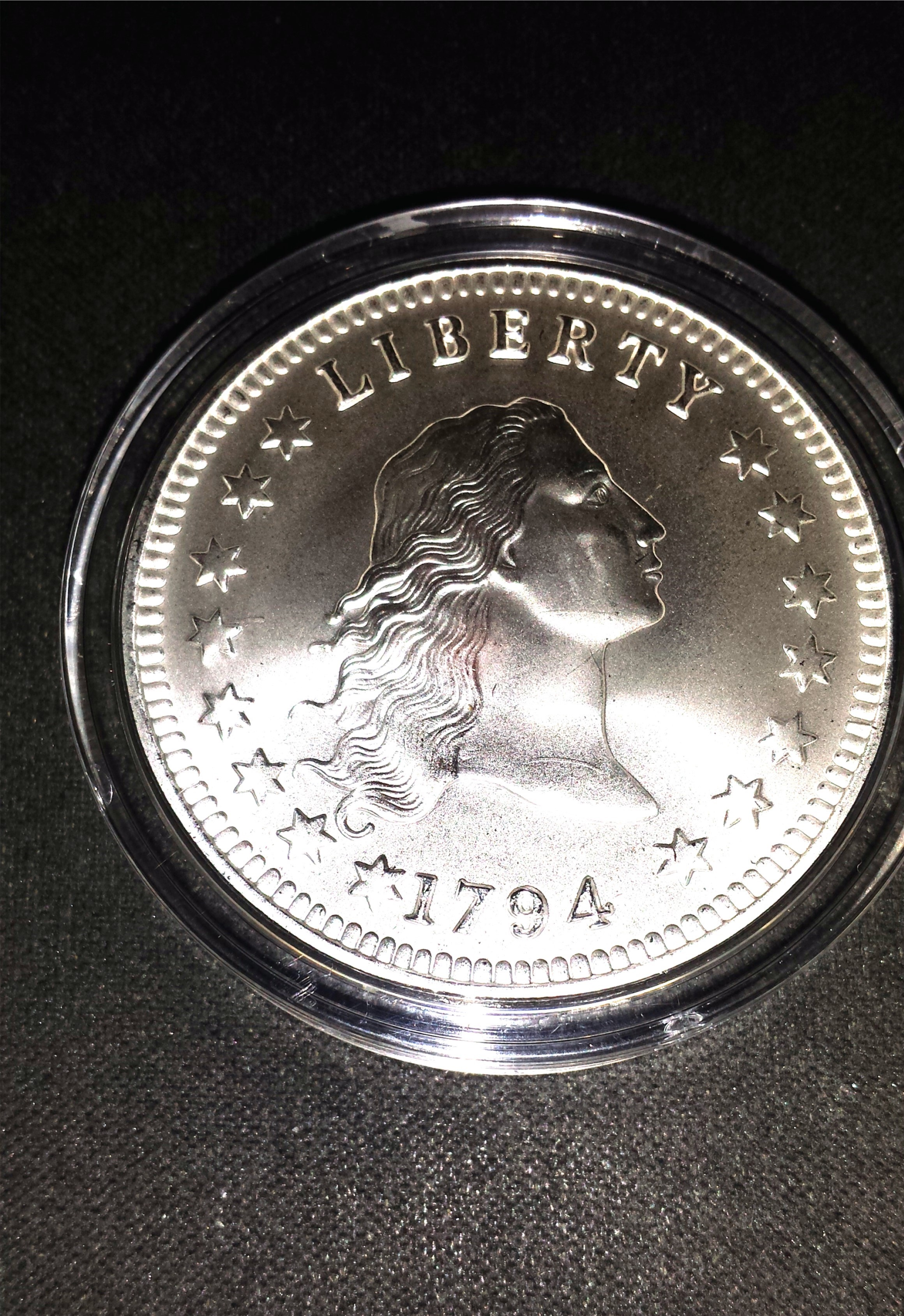 Photo of my Silver US1794 Dollar